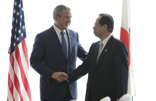 President George W. Bush and Prime Minister Yasuo Fukuda shake hands after their meeting at the Windsor Hotel Toya Resort and Spa in Tōyako Town, Abuta District, Hokkaidō on July 6, 2008.